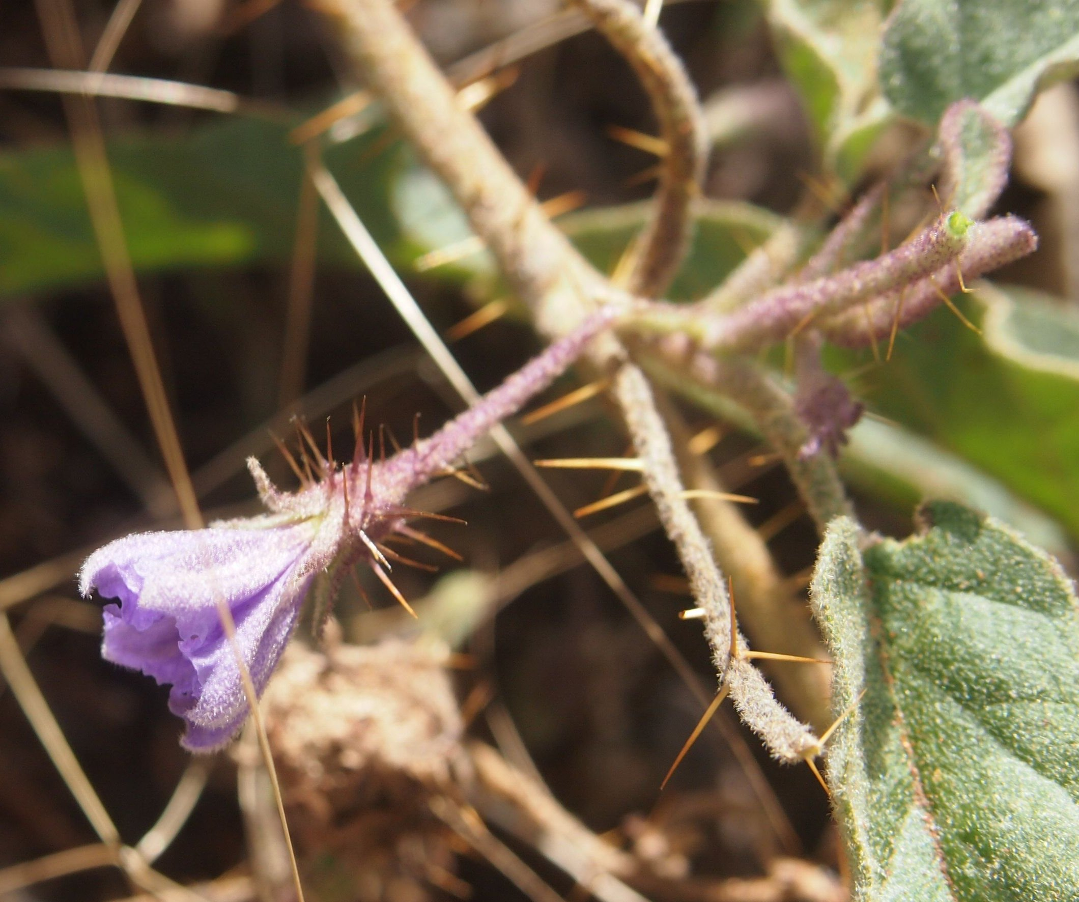 Solanum cleistogamum flower